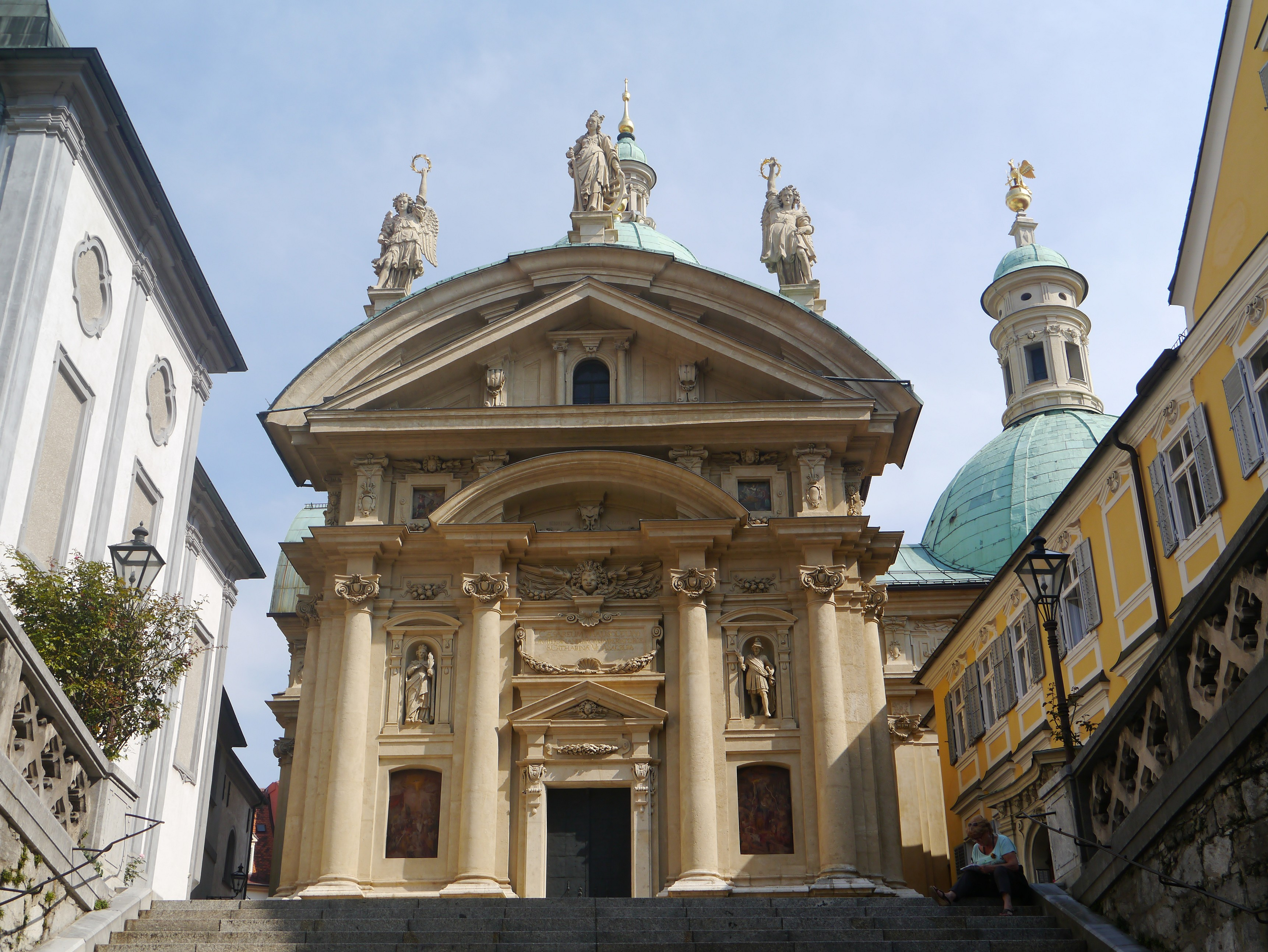 Facade of St. Catherine, Graz